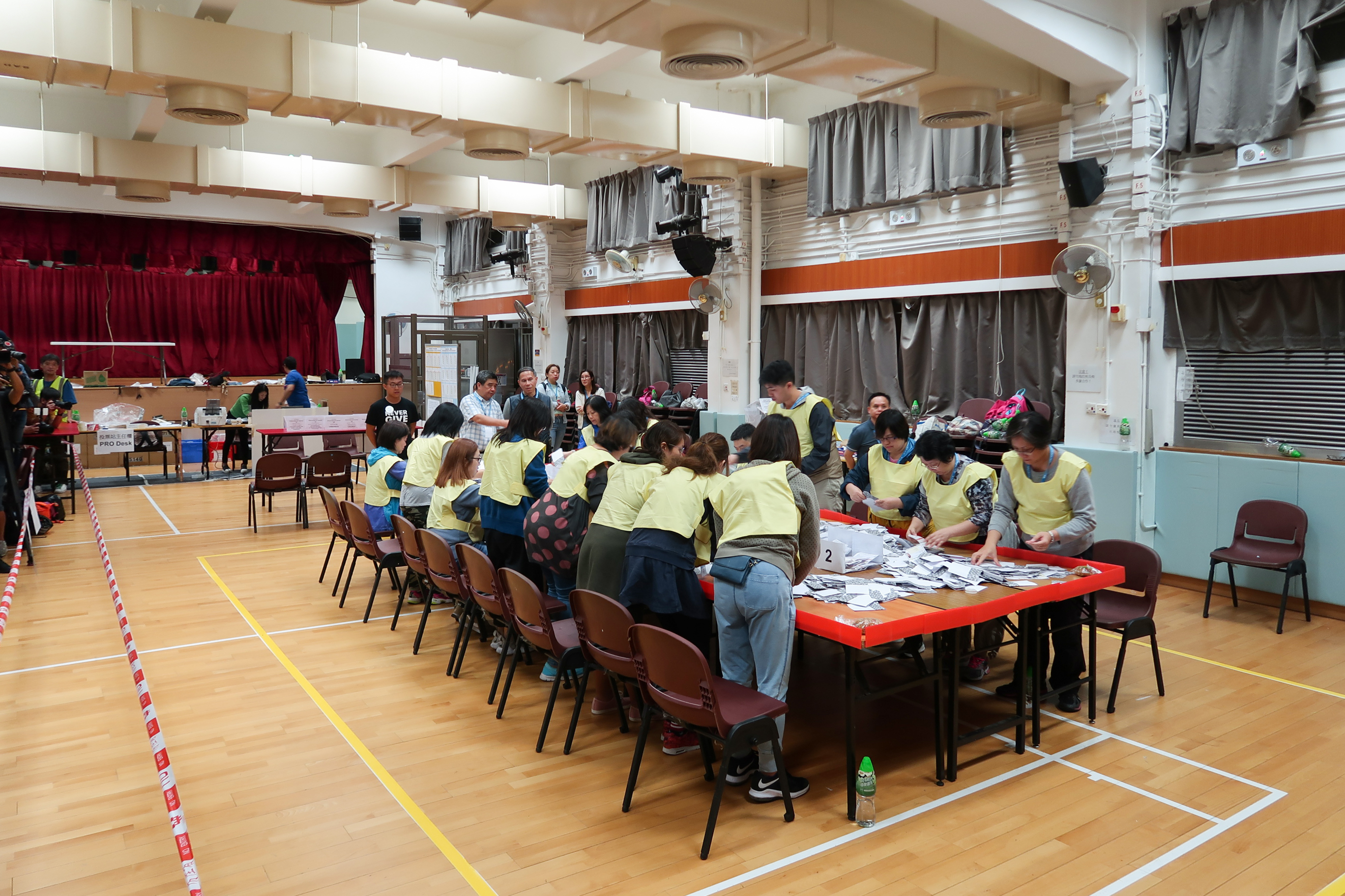 Lek Yuen Community Hall Polling Station Counting